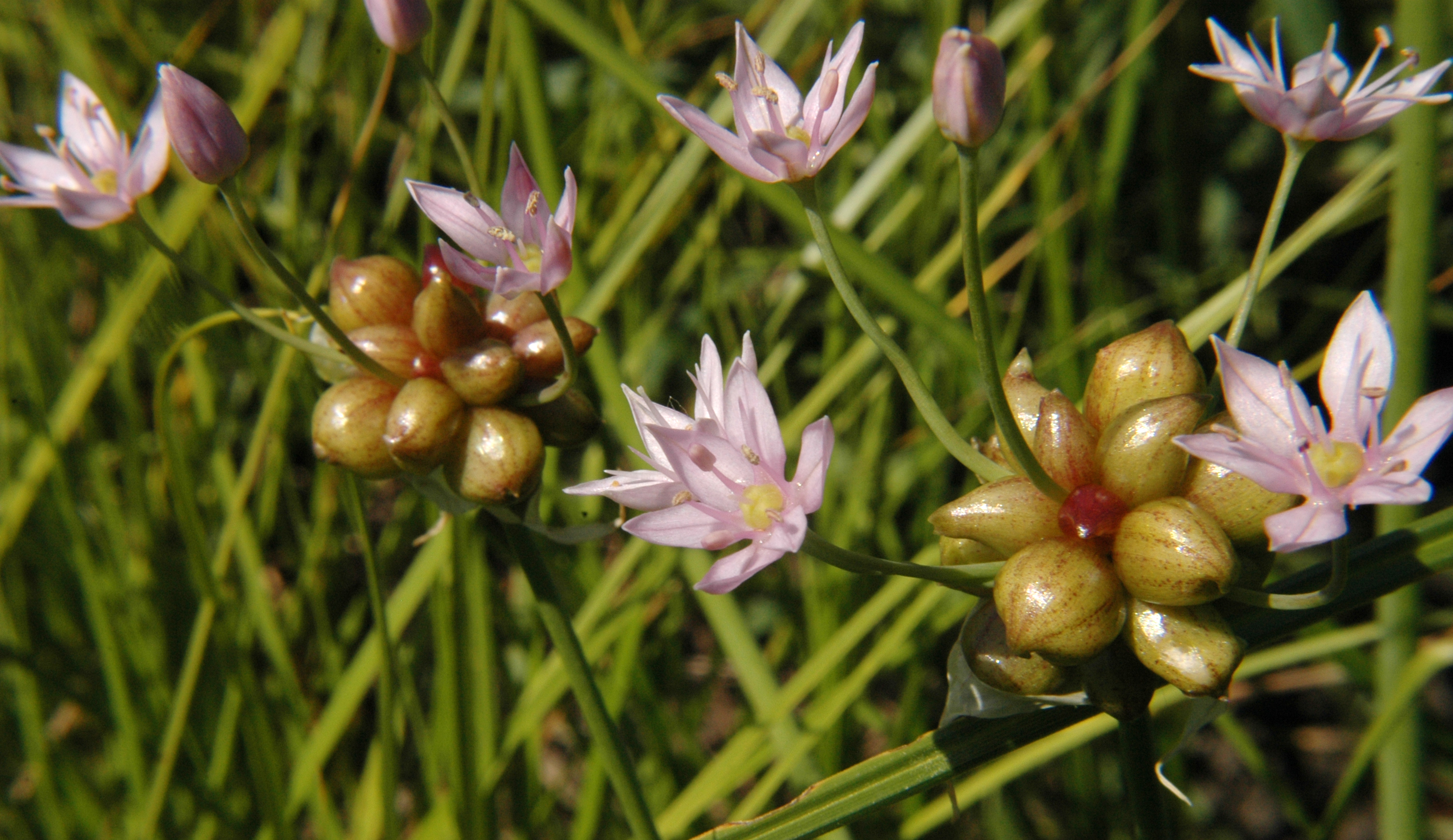 Image of blooms and bulbheads of Allium canadense WILD ONION at the James Woodworth Prairie Preserve